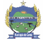 Coat of arms of the city of Cantá, Roraima, Brazil.